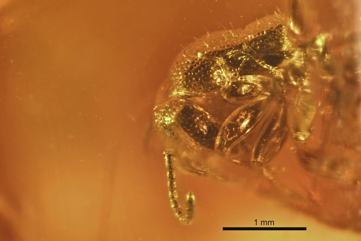 Profile view of the Dolichoderus punctatus holotype worker. Middle Eocene; Baltic amber, Samland Peninsula, Kalingrad, Russia Natural History Museum, London, United Kingdom. Specimen BMNHP-II1101